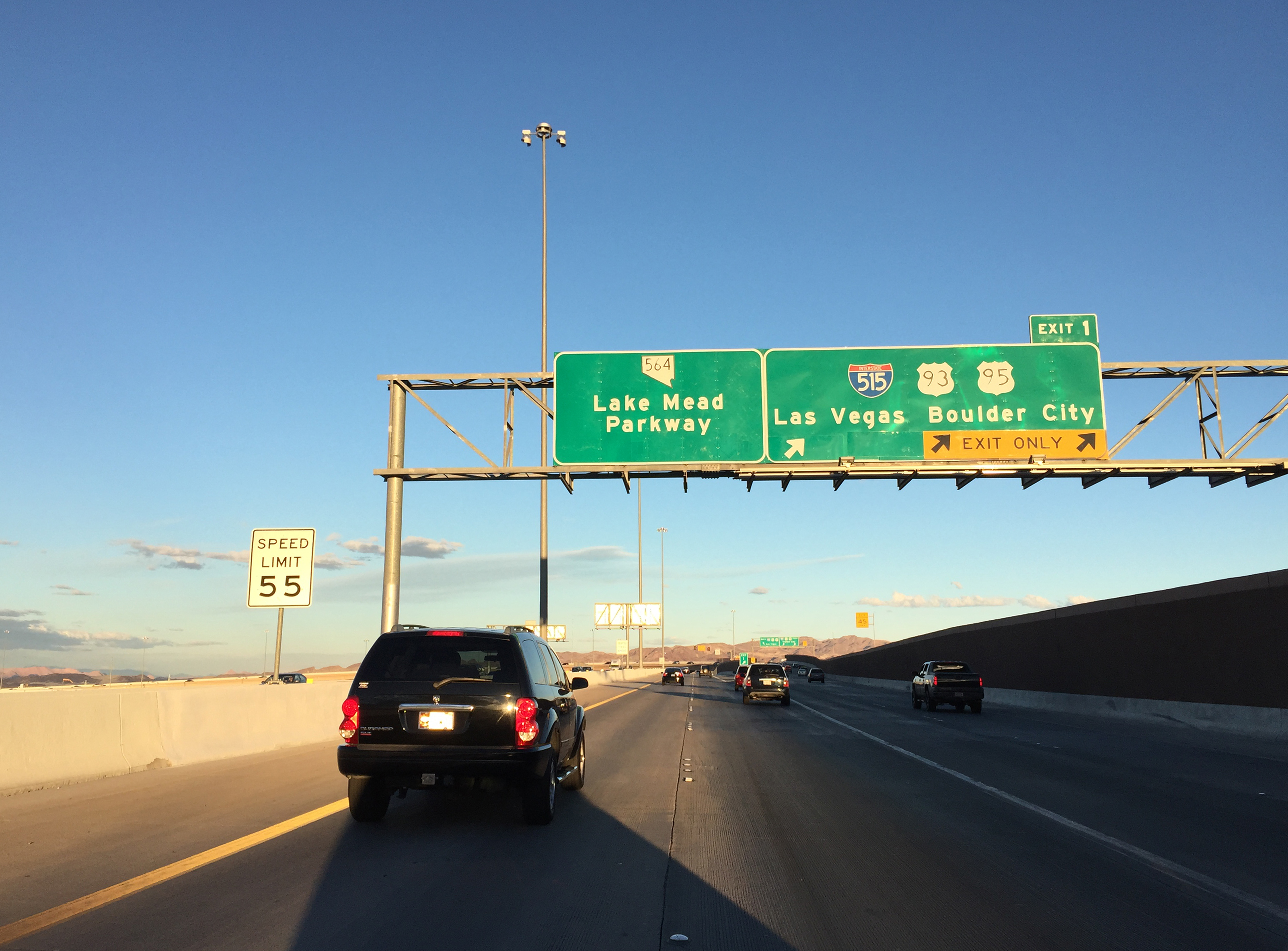 View east at the east end of Interstate 215 at the junction with Interstate 515, U.S. Route 93, U.S. Route 95 and Nevada State Route 564 in Henderson, Nevada